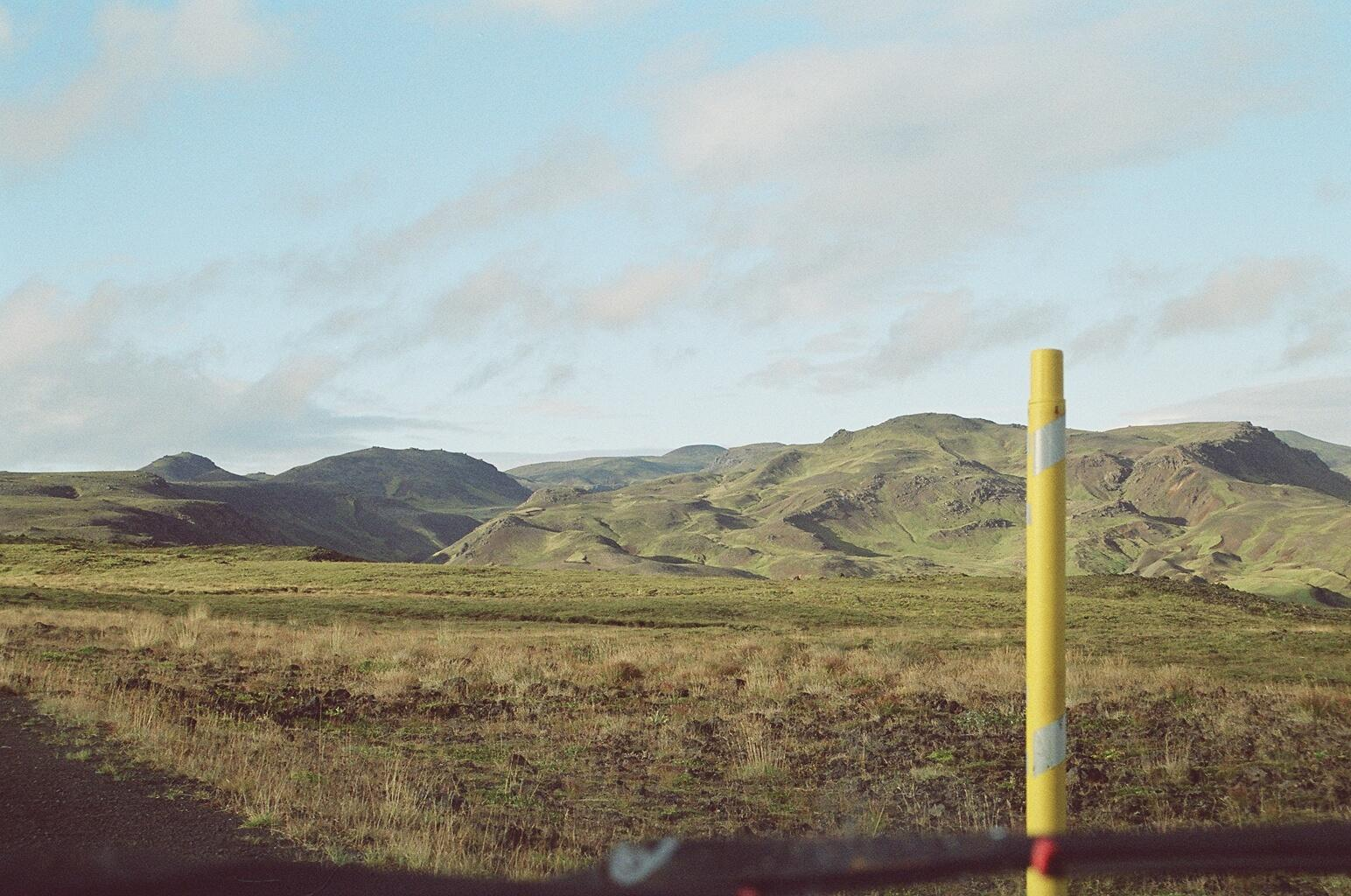 Hengill, Iceland, GNU-FDL I took the picture by my-self in september 2004.